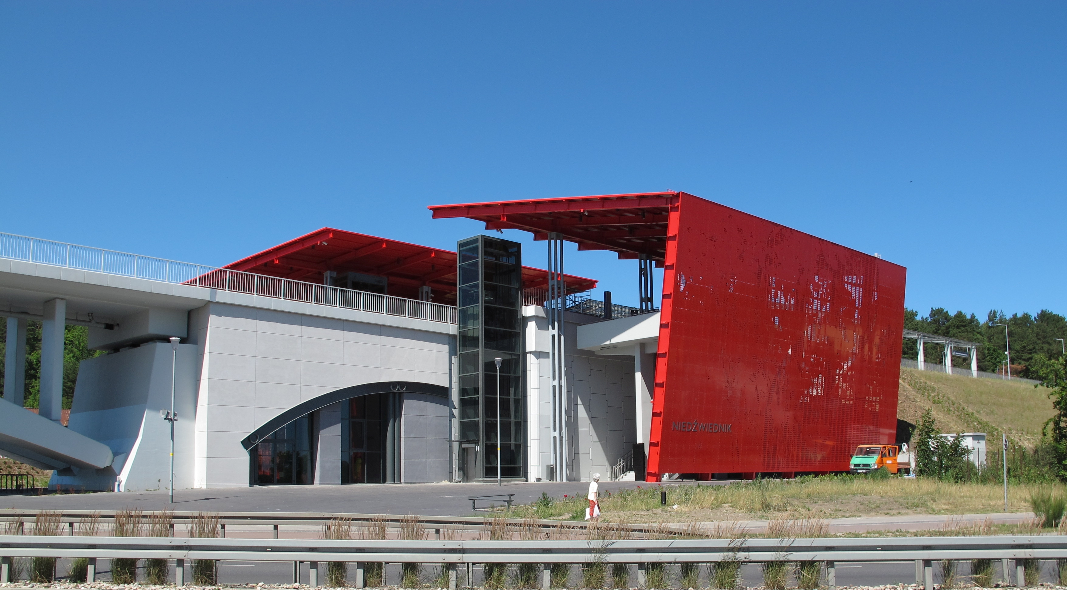 Gdańsk - Pomeranian Metropolitan Railway stop Gdańsk Niedźwiednik